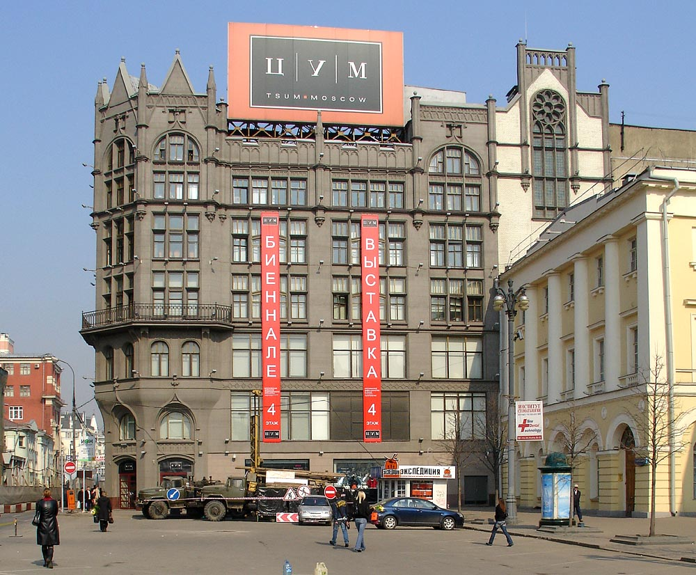 Tsum Building, Moscow. Architect: Roman Klein (1858-1924)